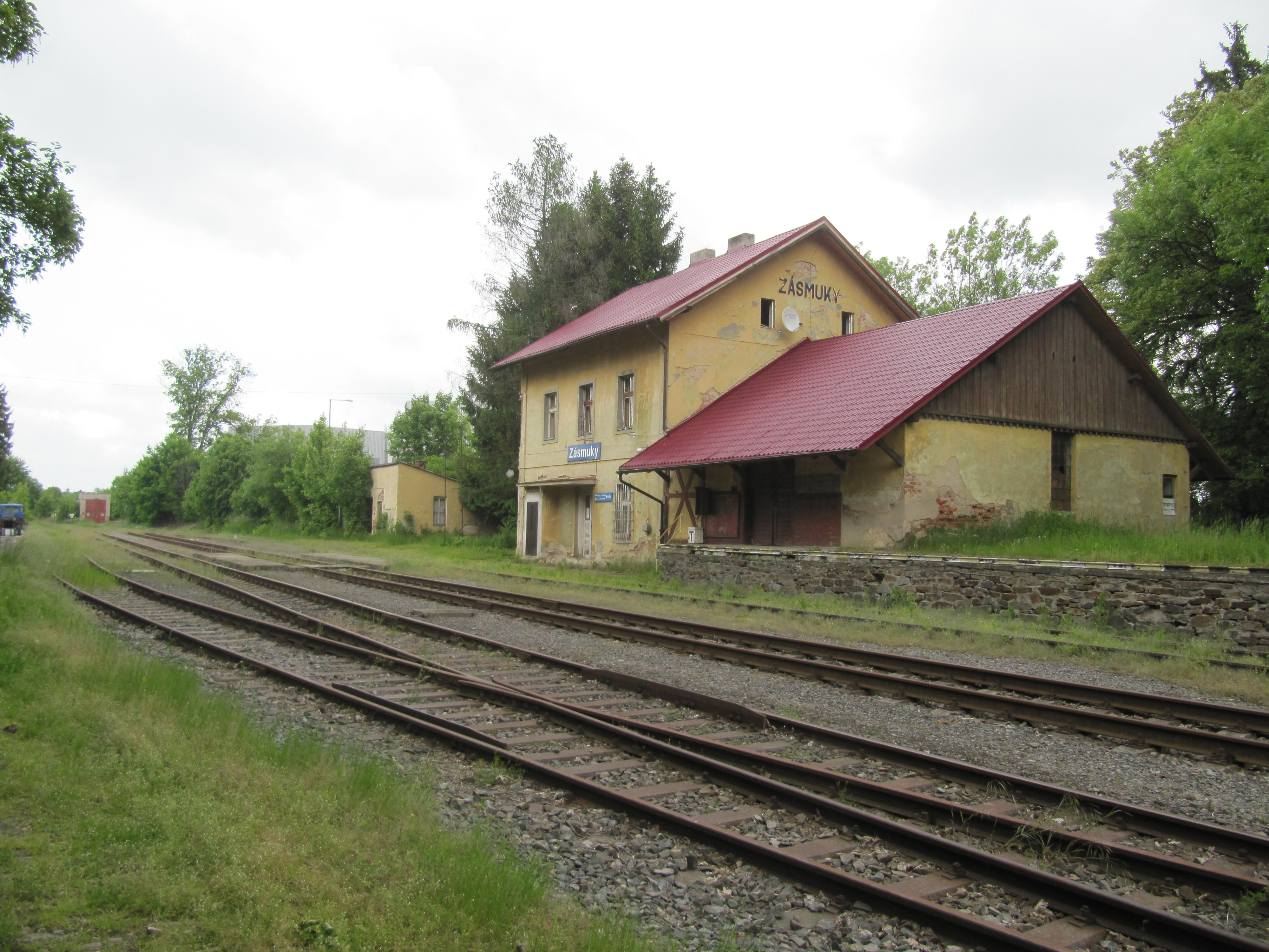 Zásmuky, Kolín District, Czech Republic. Former train station.